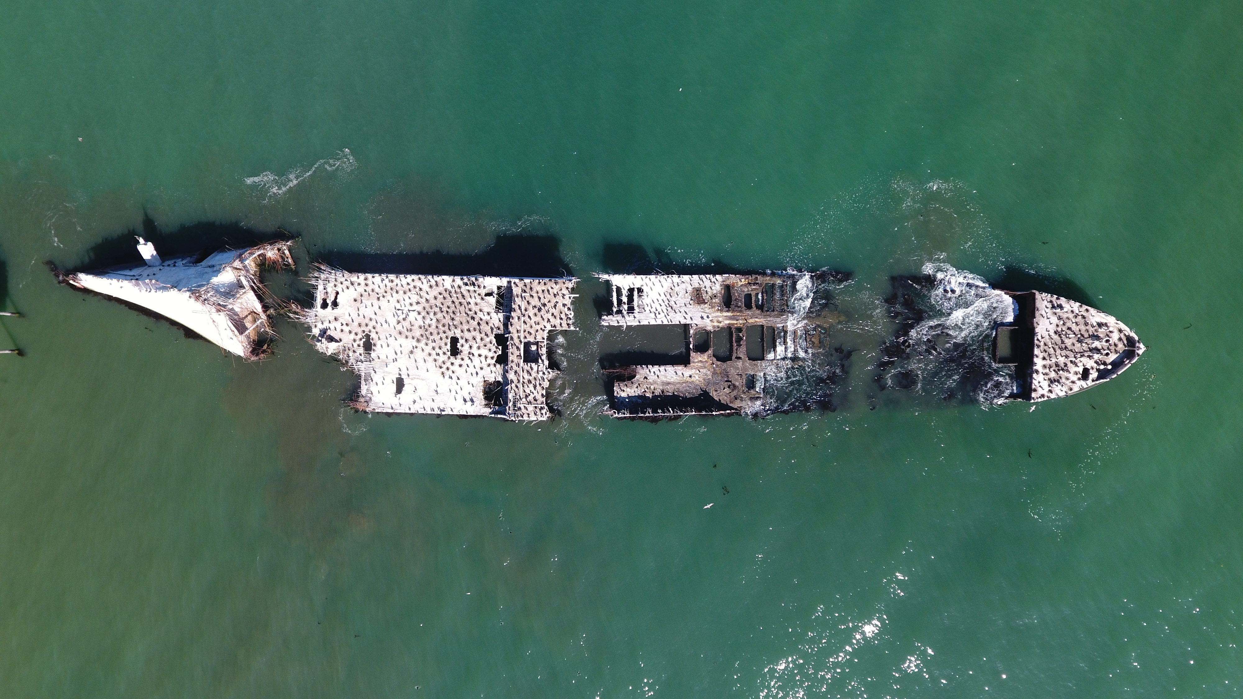 Overhead drone picture of the USS Palo Alto on July 3rd 2019.